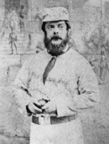 Cricketer John Wisden